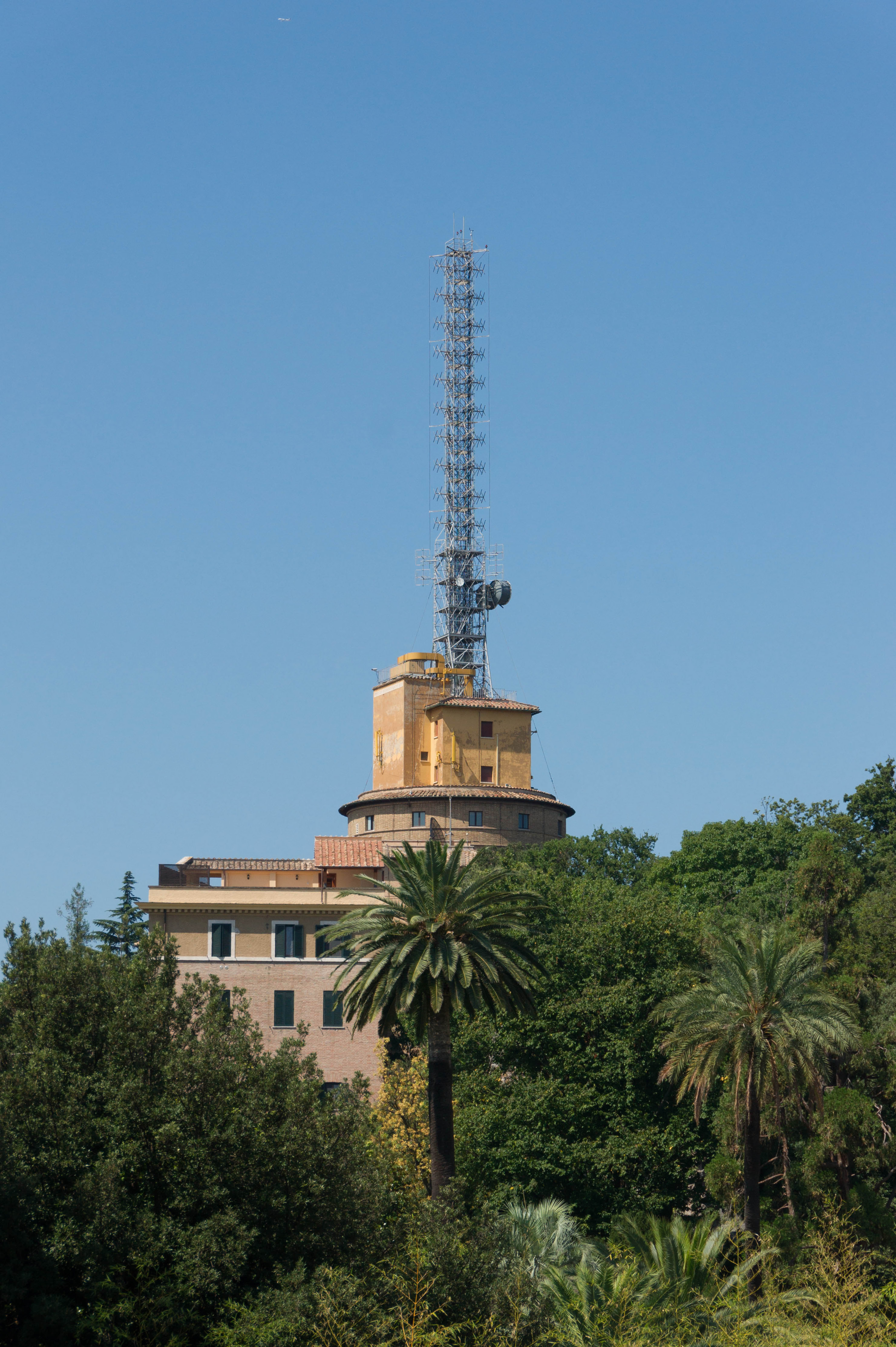 An antenna of Radio-Vatican, Vatican city.